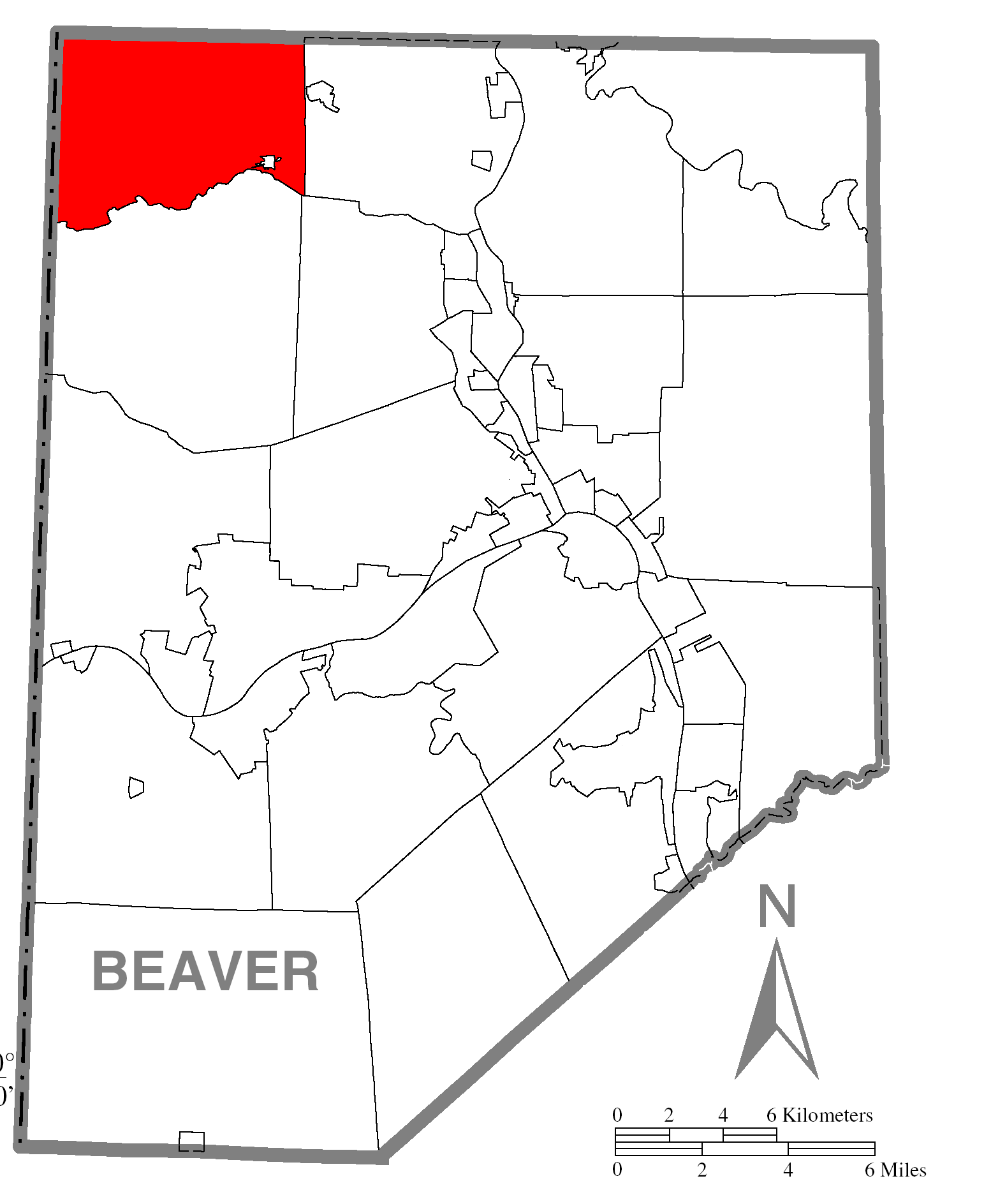 A map of Beaver County showing Darlington Township, Pennsylvania (alternate) highlighted on the map.